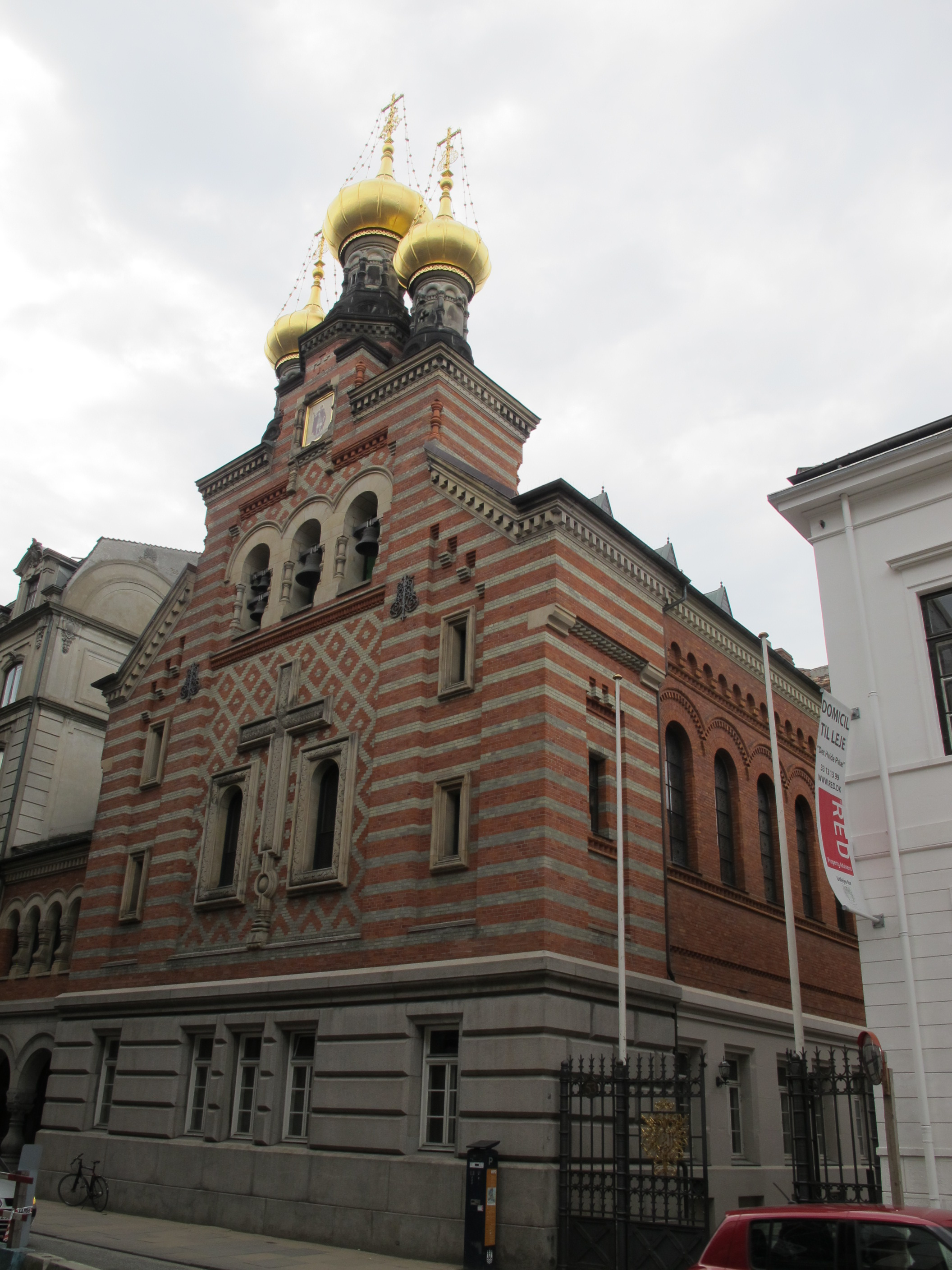 Alexander Nevsky Orthodox Church in Copenhagen